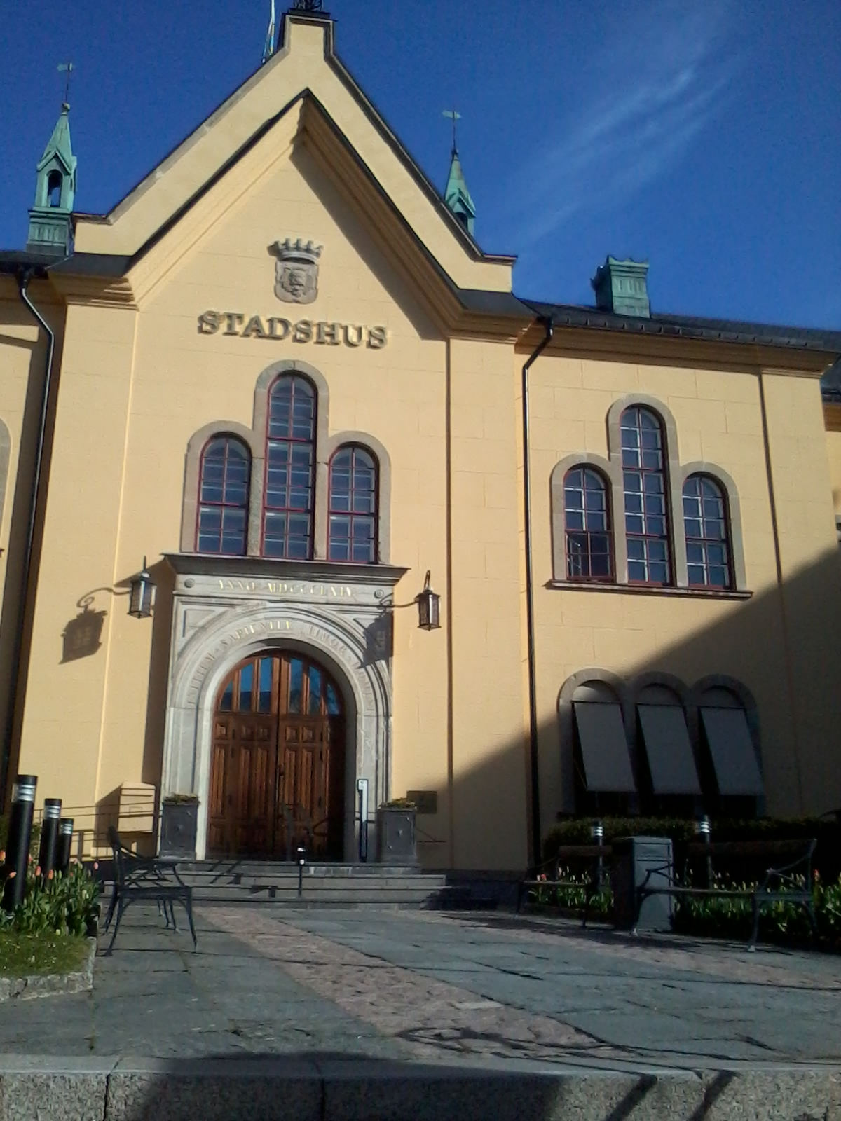 The seat of the local government of Linköping, Sweden.